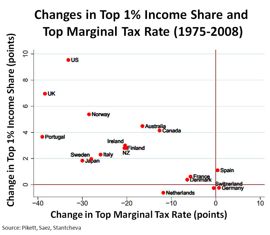 Changes in percent of income held by the top 1% income earners versus changes in the top marginal tax rates for 18 OECD countries for 1975-2008.